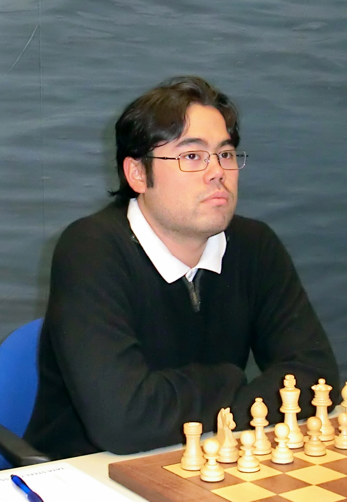 Hikaru Nakamura, chess grandmaster from the United States